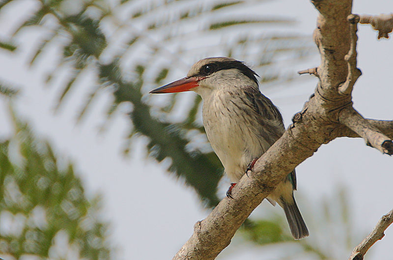 Image taken at Brufut Woods, The Gambia